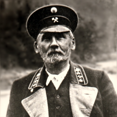 Leonard Antonovich Yachevsky (1858—1916)